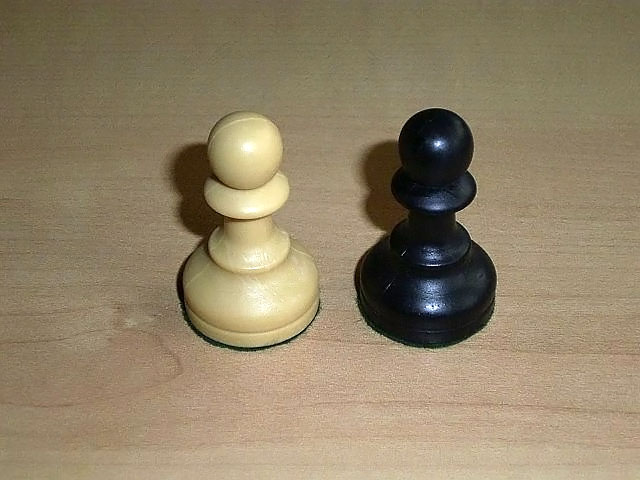 Chess pawns.